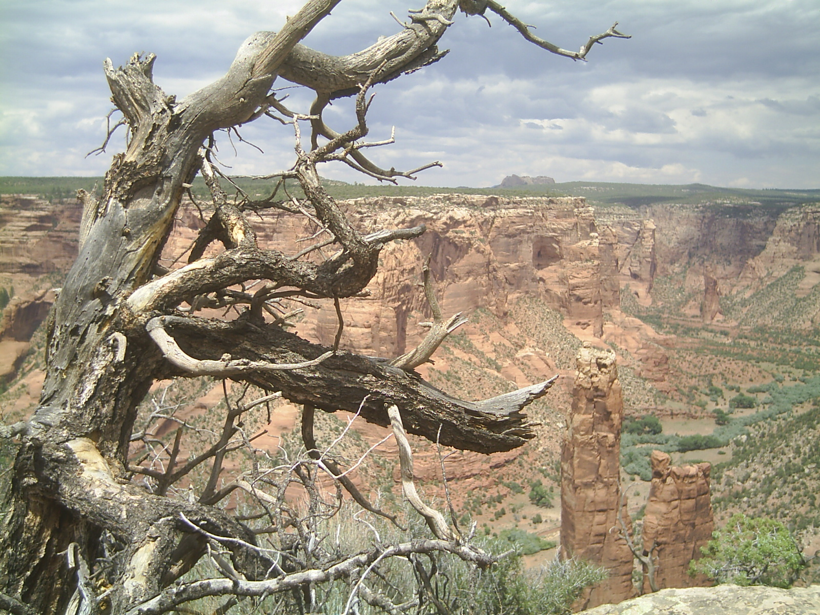 The Canyon De Chelly